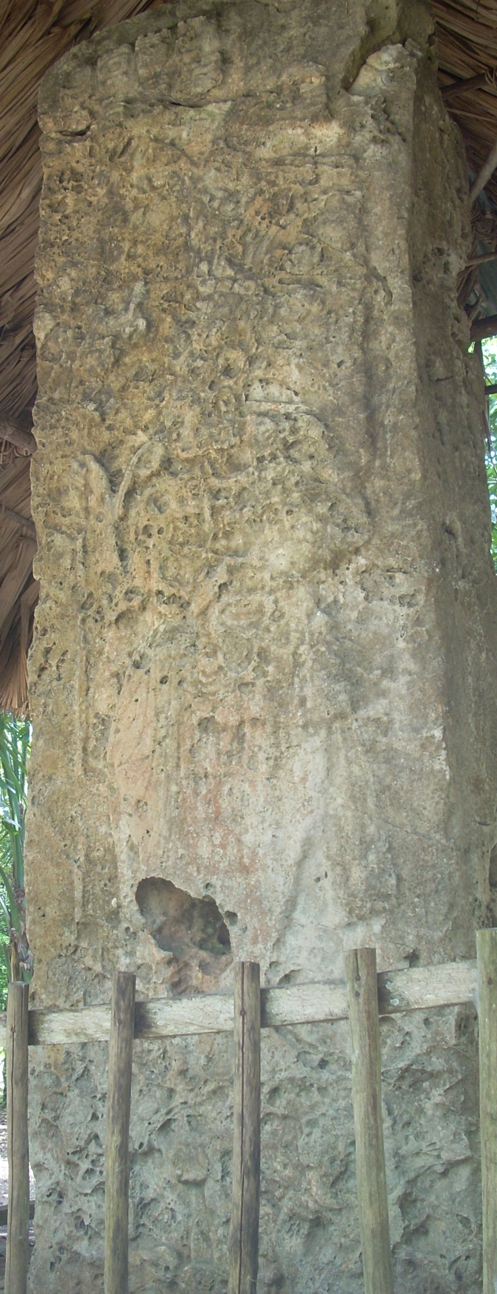 Front of Stela 4 at El Chal, depicting a standing ruler facing left and holding a staff. Late Classic Period. El Chal, Dolores, Peten, Guatemala.